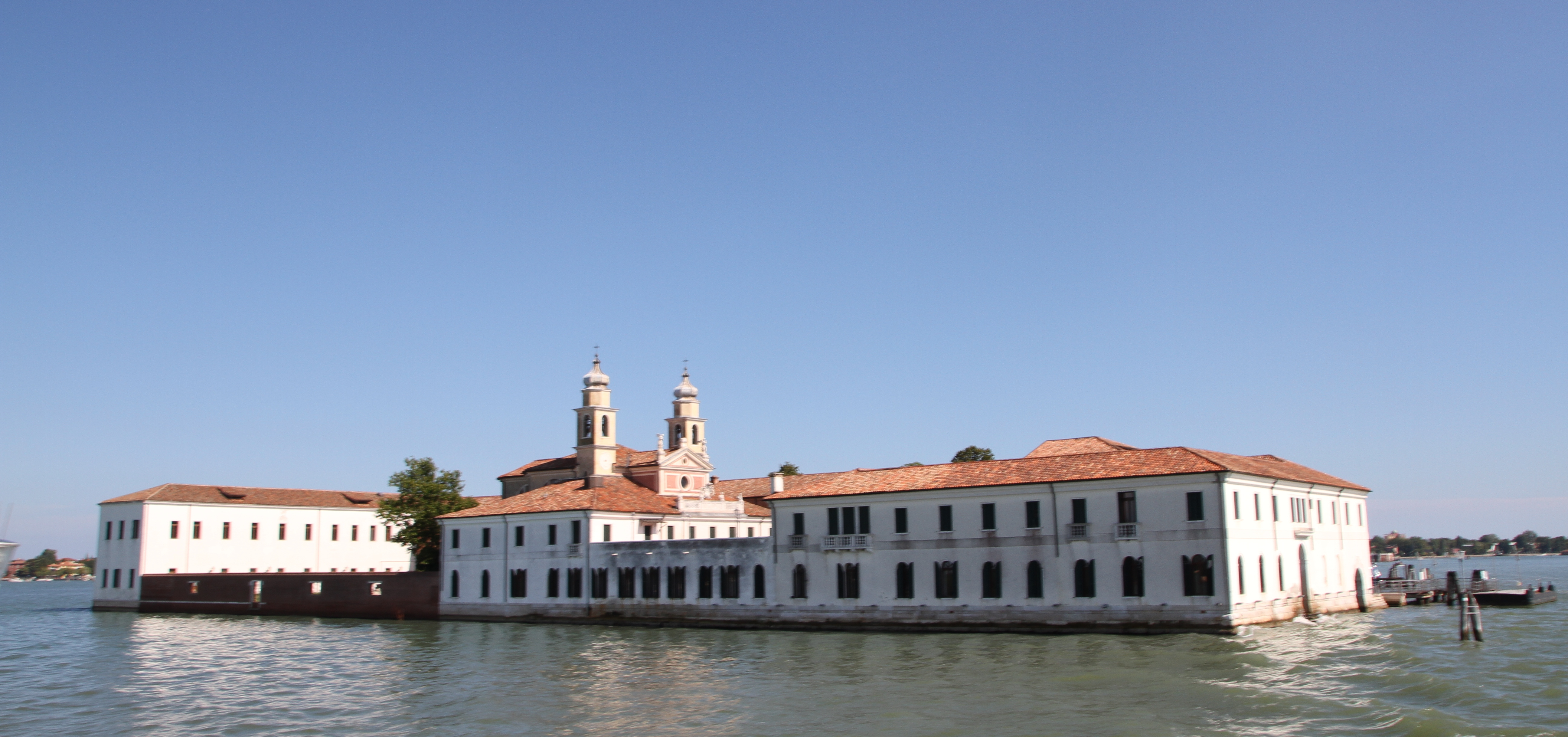 Image of the San Servolo Island in Venice, Italy